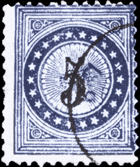 Postage due stamp of Switzerland, 5 centimes, 1878. Unique Rayed Star 5c.